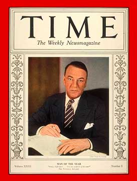 A Picture of Hugh S. Johnson on Time Magazine as Man of the Year, from Time's website